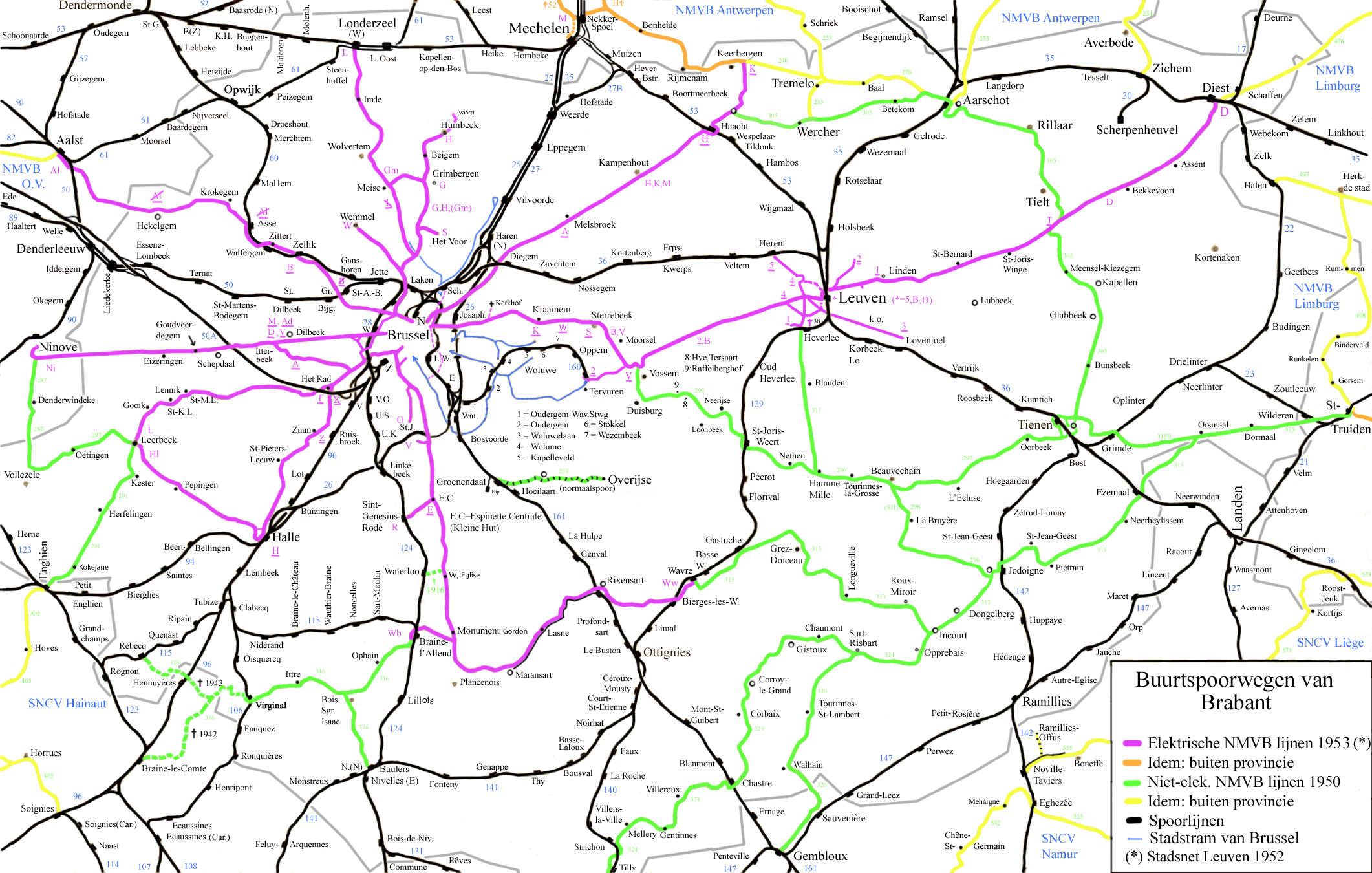 Map of the vicinal railways in the province of Brabant. Purple lines = electrified lines in 1953 Brown lines = idem, but outside the province Green lines = non-electrified lines in 1950 Yellow lines = idem, but outside the province Blue lines = Some lines of the Brussels citytram Black lines = Railways (normal gauge)